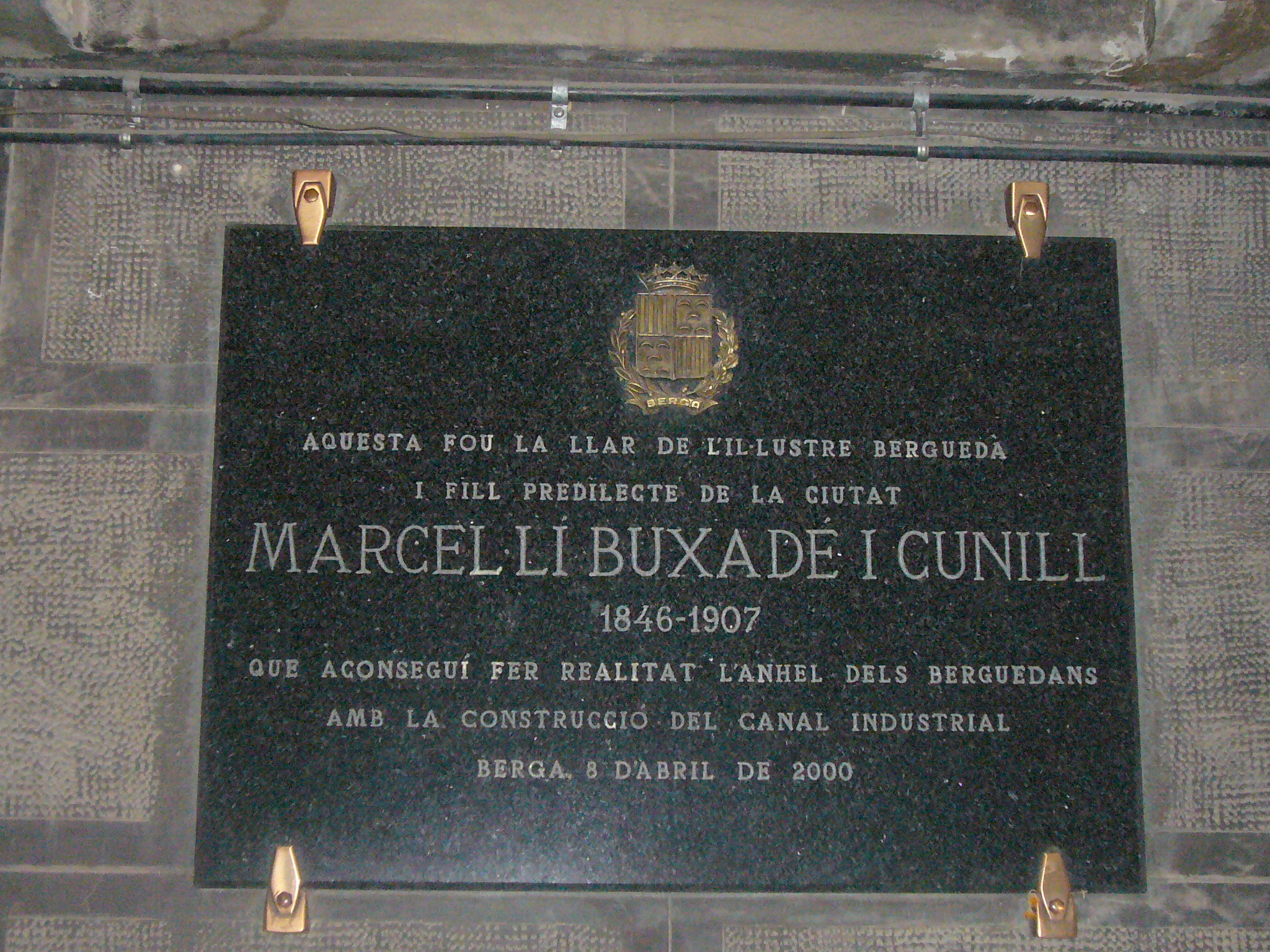 Native home of Marcel·lí Buxadé Conill